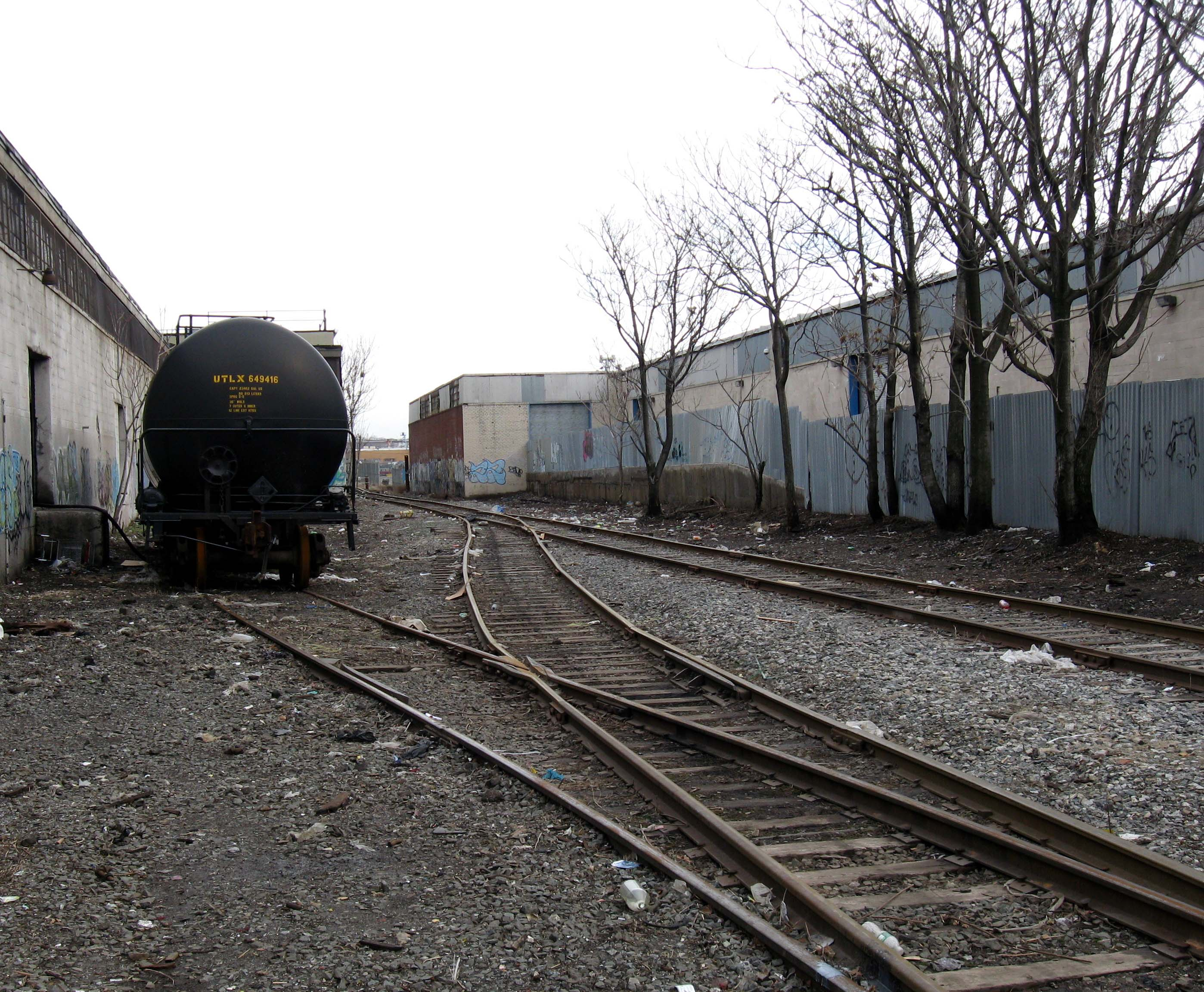 Looking east from Morgan Avenue at Bushwick Branch of the former Southern Railroad of Long Island now owned by Long Island Rail Road and operated by New York and Atlantic Railway